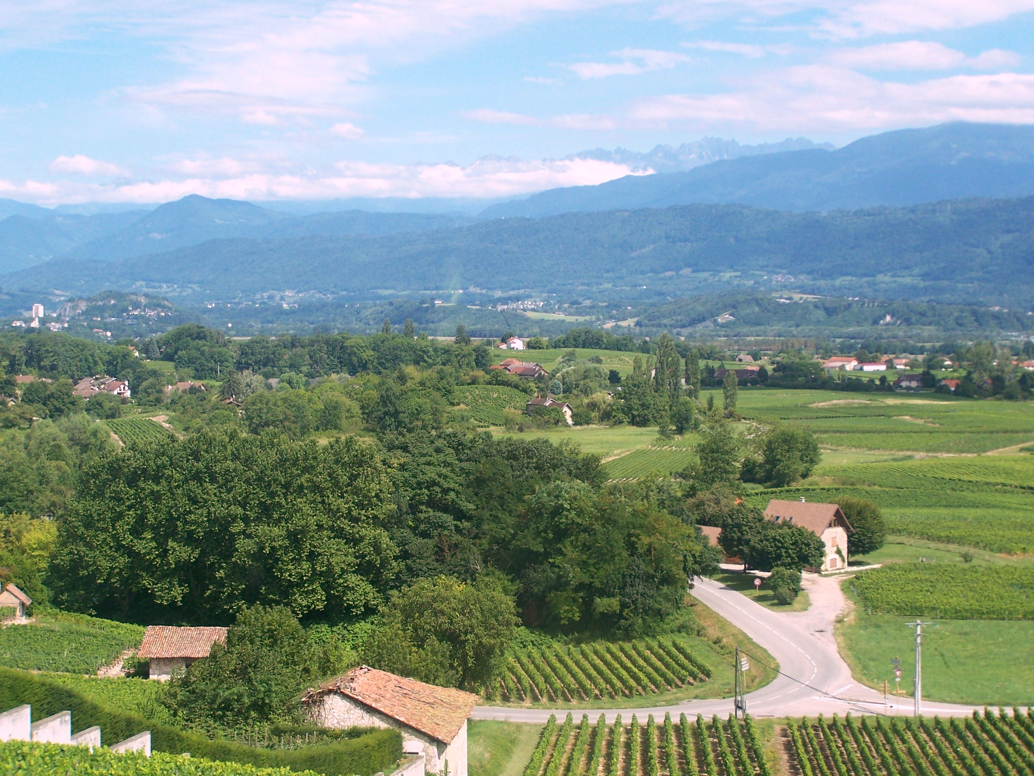 Sight on Savoyan vineyards situated on the commune of Les Marches (St-André), in France.